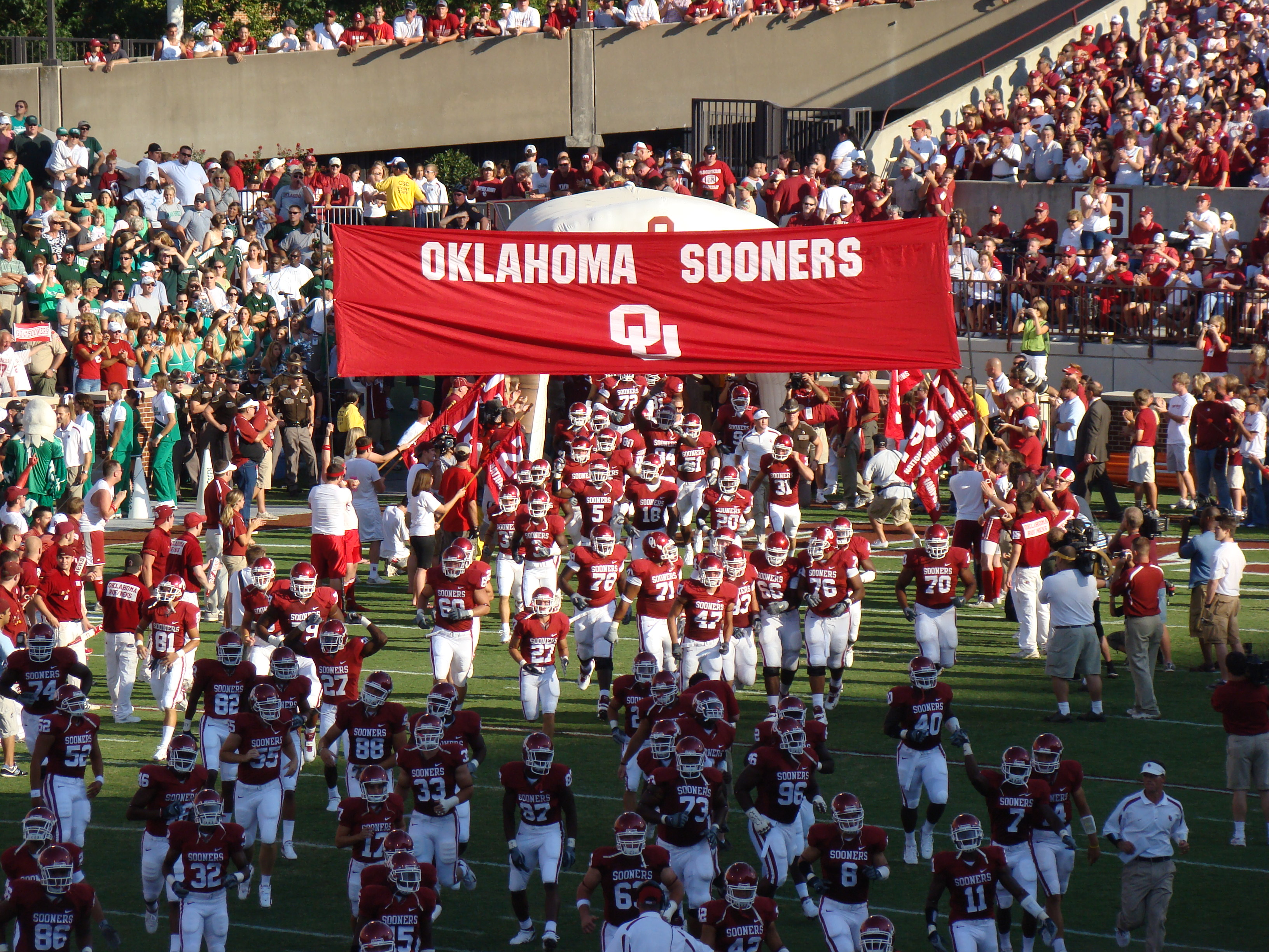 The Oklahoma Sooners football team enters the field for the first home game of the season against the North Texas Mean Green on September 1, 2007.